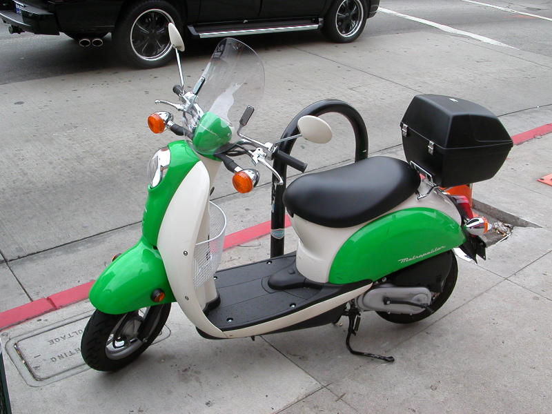 Honda Metropolitan (US Version of Honda CHF50 scooter), on Wilshire Boulevard in Los Angeles, California. Color is Kiwi (discontinued after 2005 model year). Optional OEM accessories shown include trunk, windshield, and front basket.